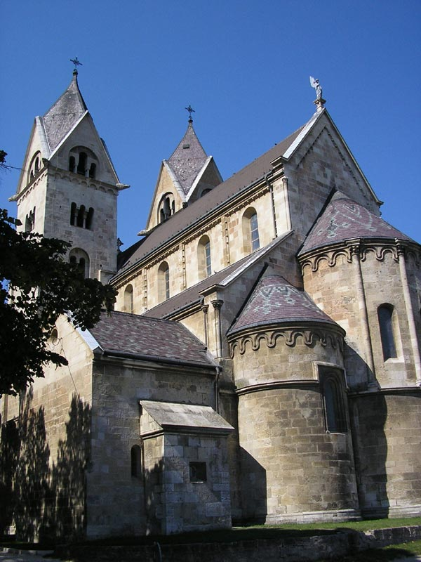 The churche in the city of Lebeny, in Hungary